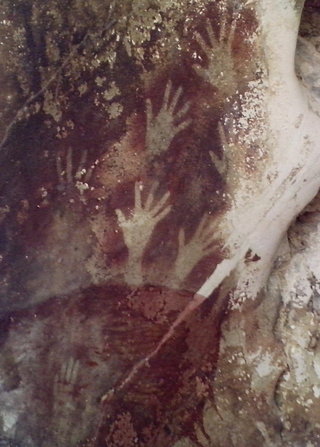 Cave paintings from the Indonesian island of Sulawesi are situated in the Caves in the district of Maros were dated based on Uranium–thorium dating in a 2014 study. The oldest dated image was a hand stencil, given a minimum age of 39,900 years